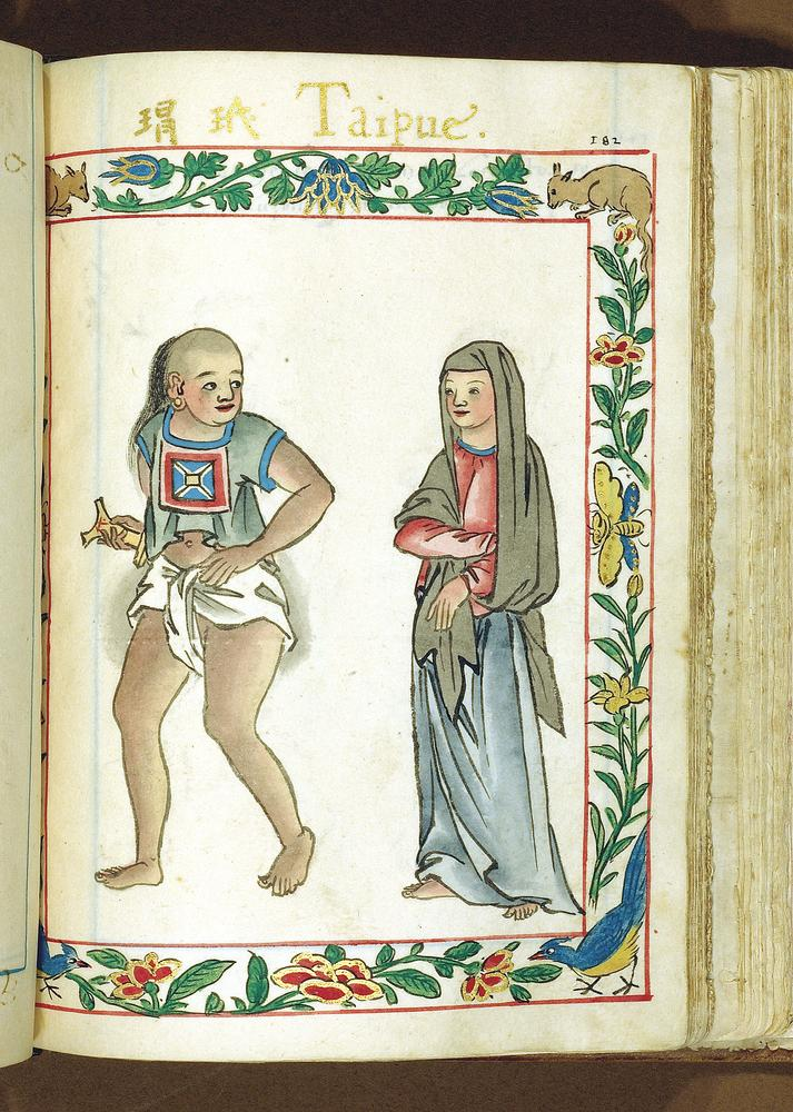 "玳瑁 Taipue" - Couple from Taimei Anchorage, Lingayen Gulf, Philippines - Boxer Codex (1590) Observed by the Colonial Spanish Authorities in Manila, Philippines around 1590 AD Likely Pangasinense couple from Kingdom of Caboloan in Pangasinan